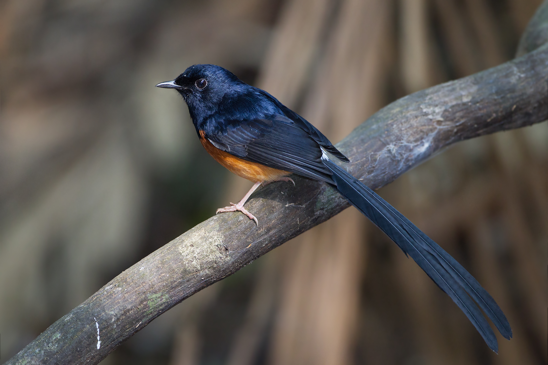 White-rumped Shama (Copsychus malabaricus) male, Khao Yai National Park, Nakhon Ratchasima, Thailand